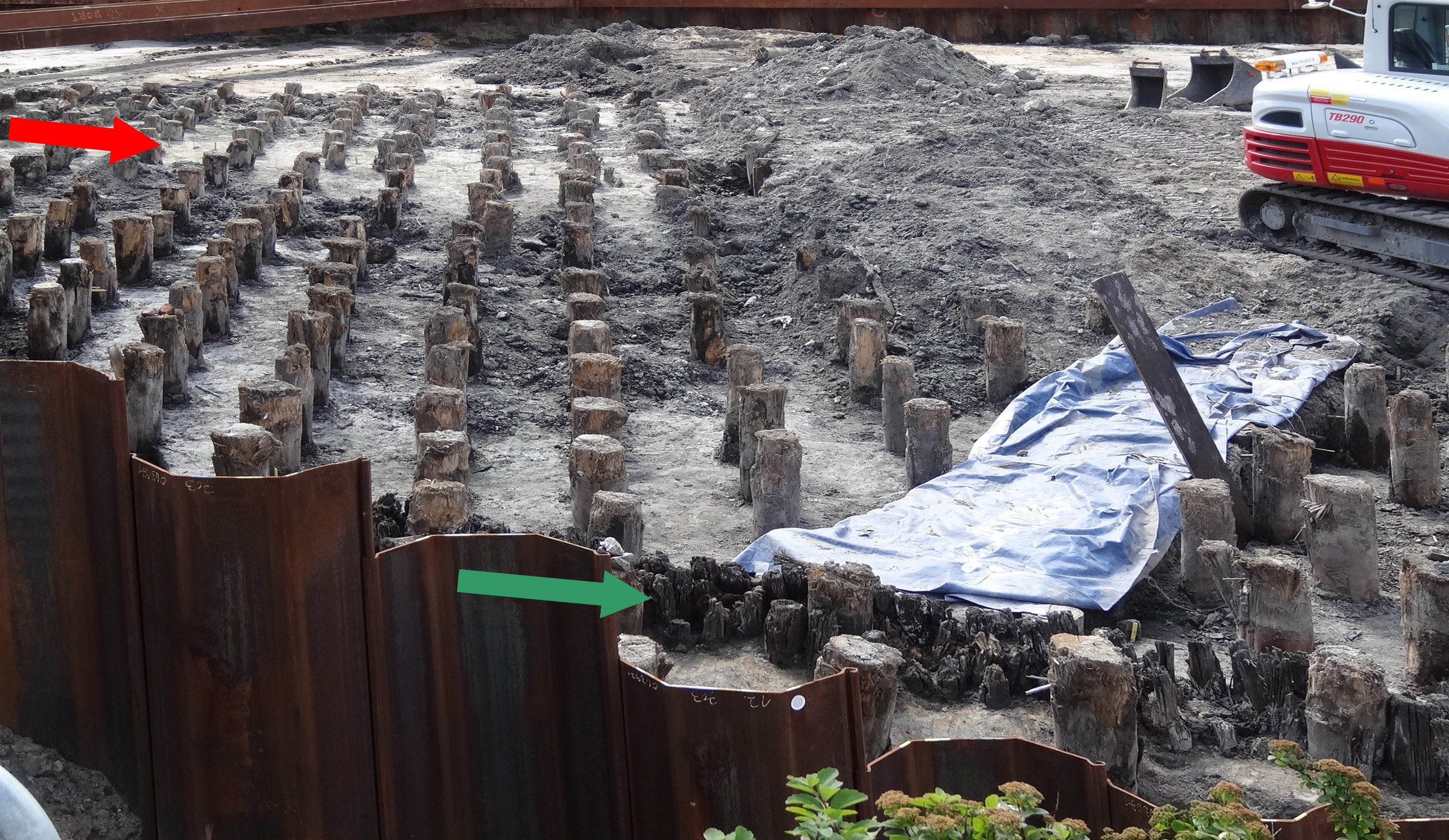 Excavated pallisade, green arrow, showing the southern city limit of Nya Lödöse, Gothenburg Sweden. The outer edge of the more than 10 meter wide moat is visible at the red arrow. The thicker polls has been foundation to a 20th century concrete floor.